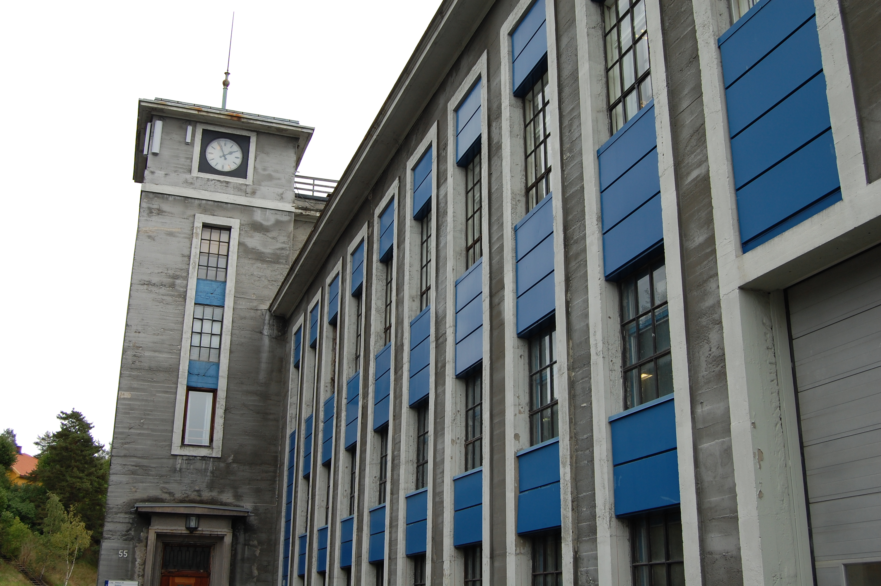 Hydrogen Plant (1926), Hydro Industrial Park, Notodden, Norway. Architect: Thorvald Astrup (1876-1940)